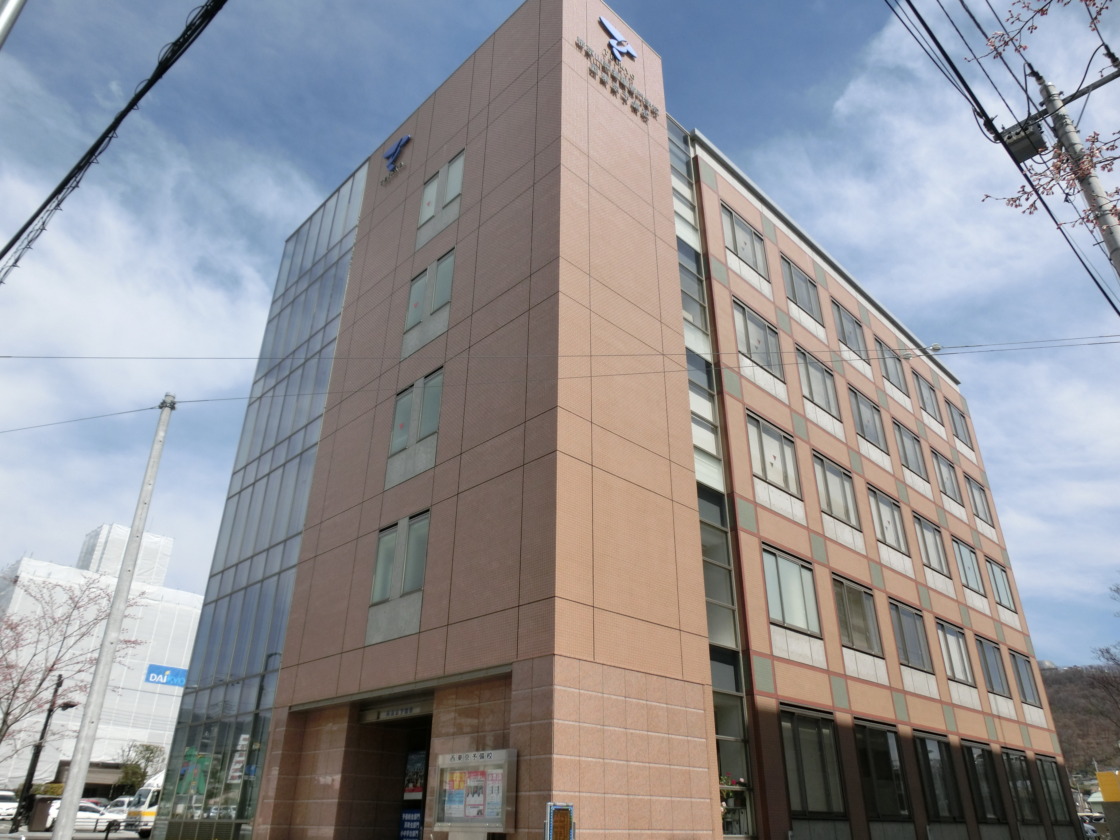 Nishi-Tokyo Yobiko Headquarters